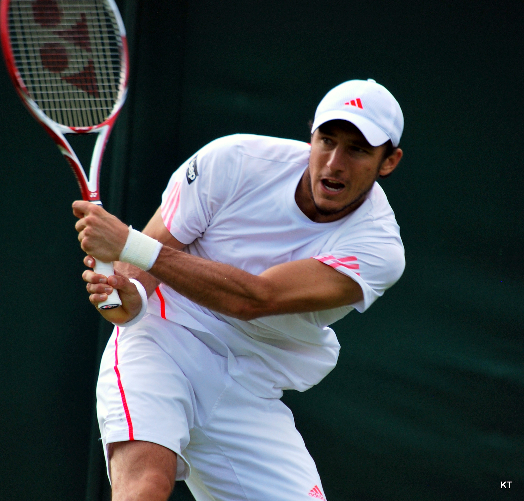 Juan Monaco during his first round match with Leonardo Mayer. Day 1 of Wimbledon 2012.